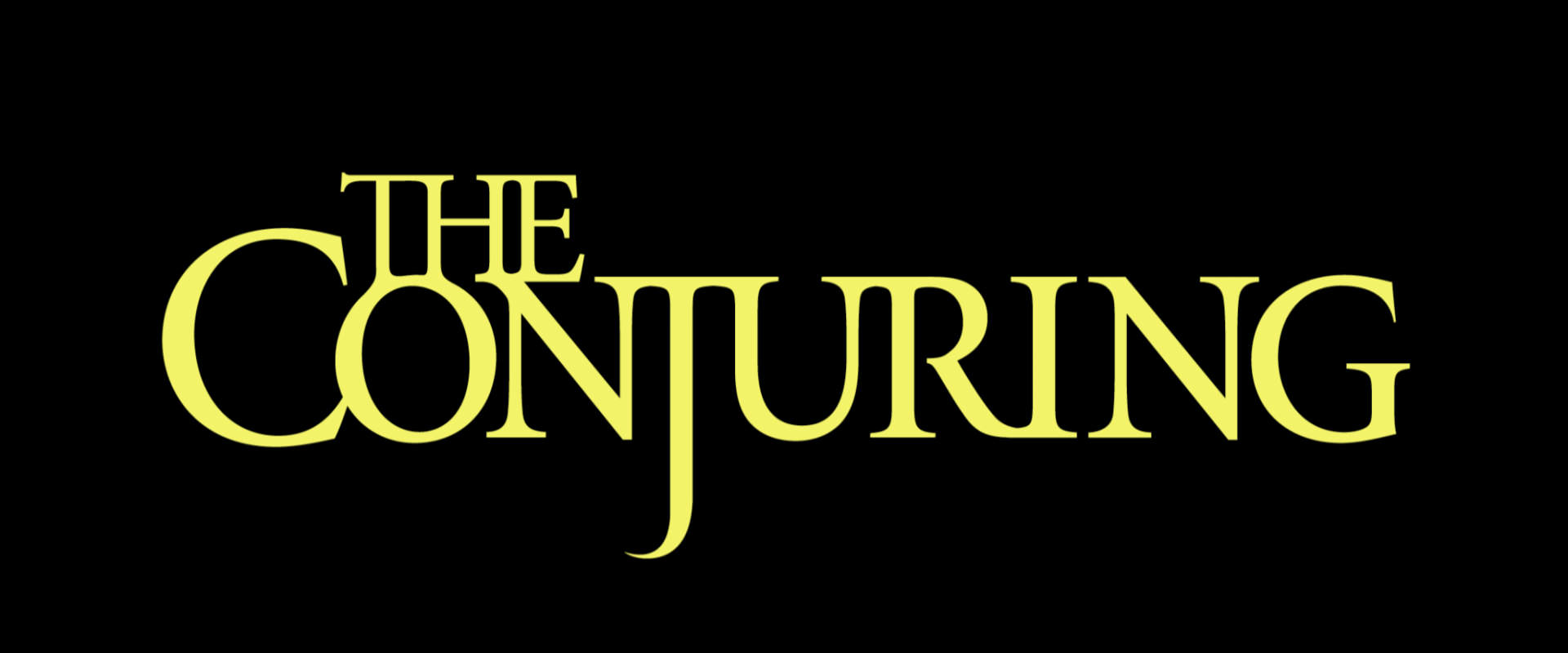 Official logo of the 2013 movie "The Conjuring"